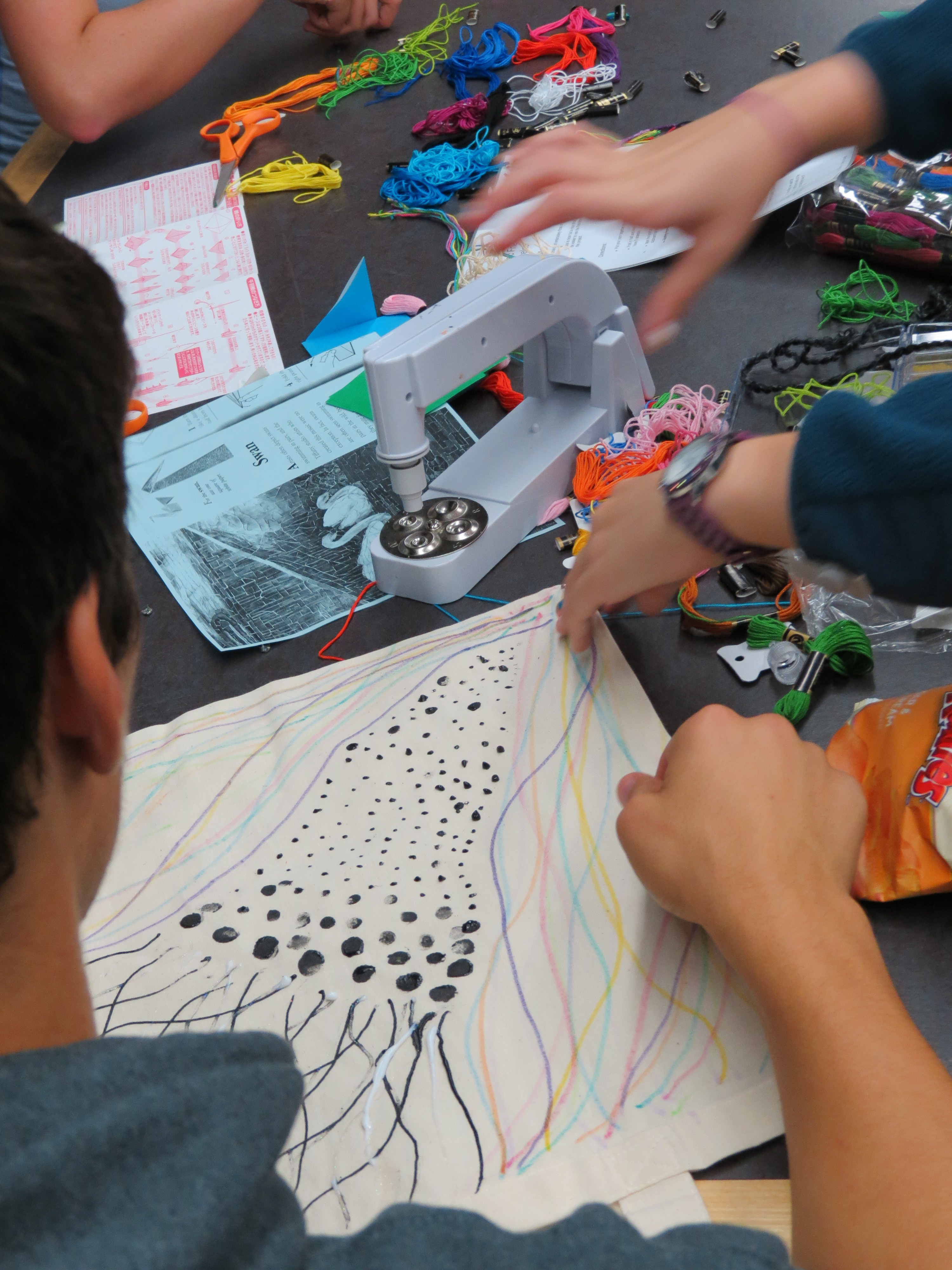 People use the white Bedazzler tool to affix shiny bits to their projects.